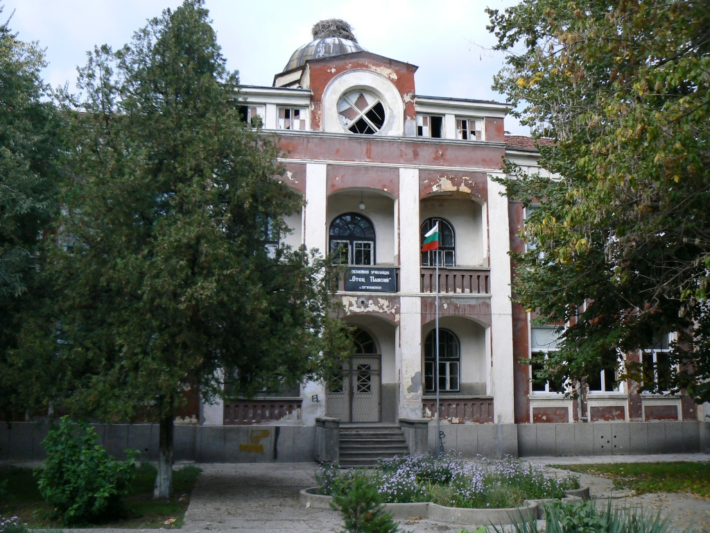 Elementary school "Otets Paisii" in village Ognyanovo (district Pazardjik)